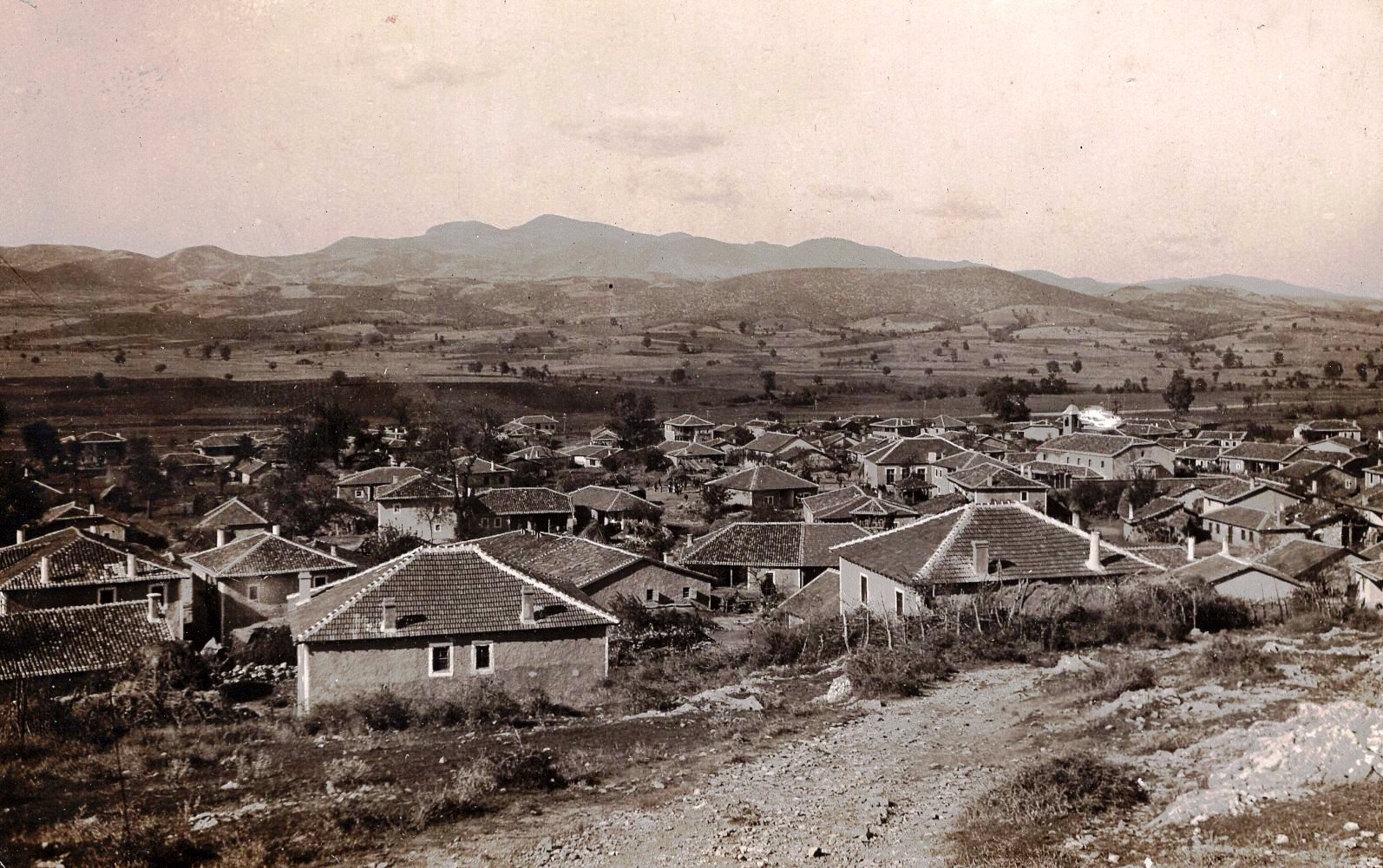 Village Kosturino, Macedonia, 1931 This media file is produced by Wikipedian in Residence in Category:Wikipedian in Residence at DARM in 2016.